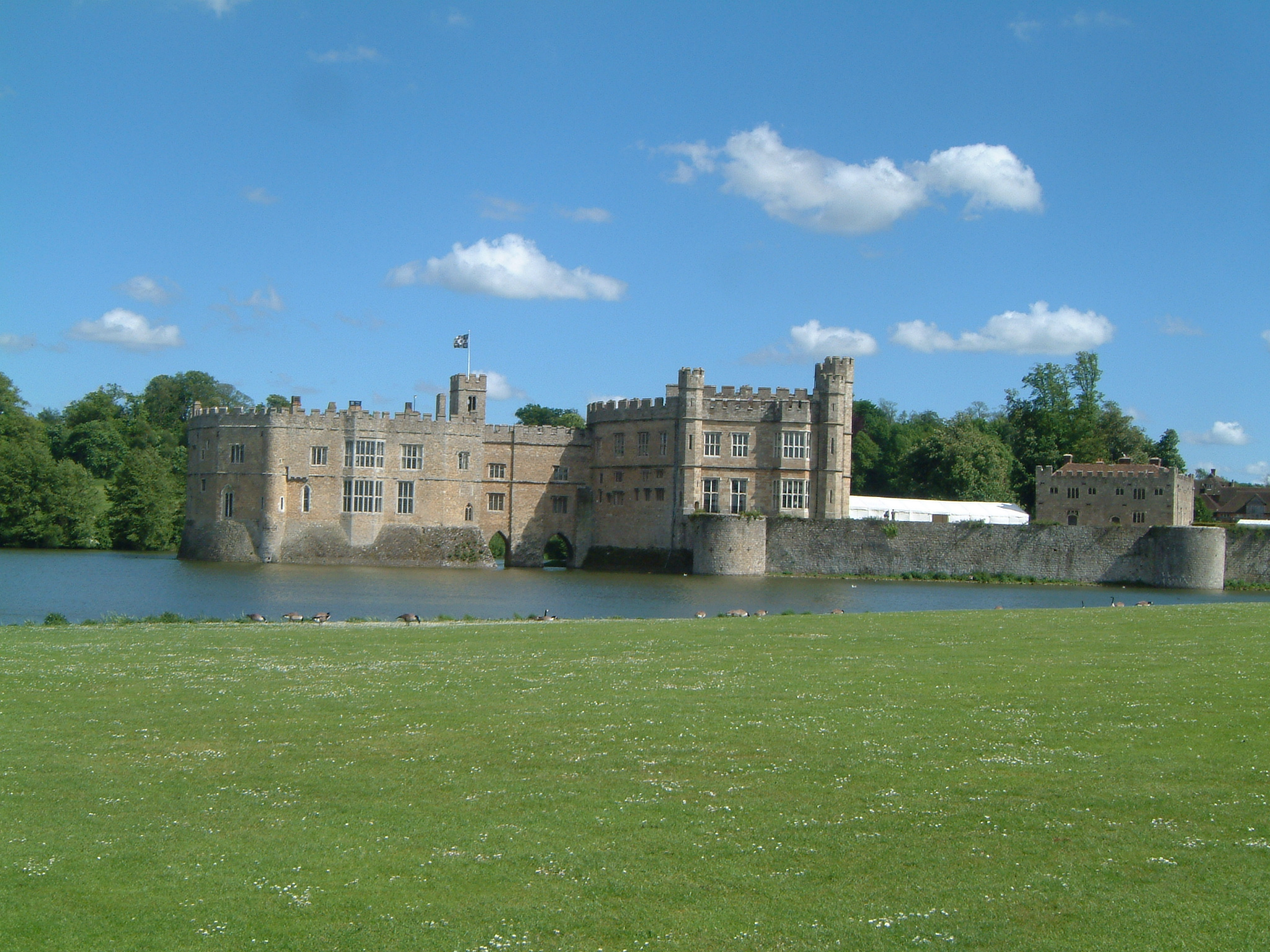 Leeds Castle - Foto of the castle taken from the park